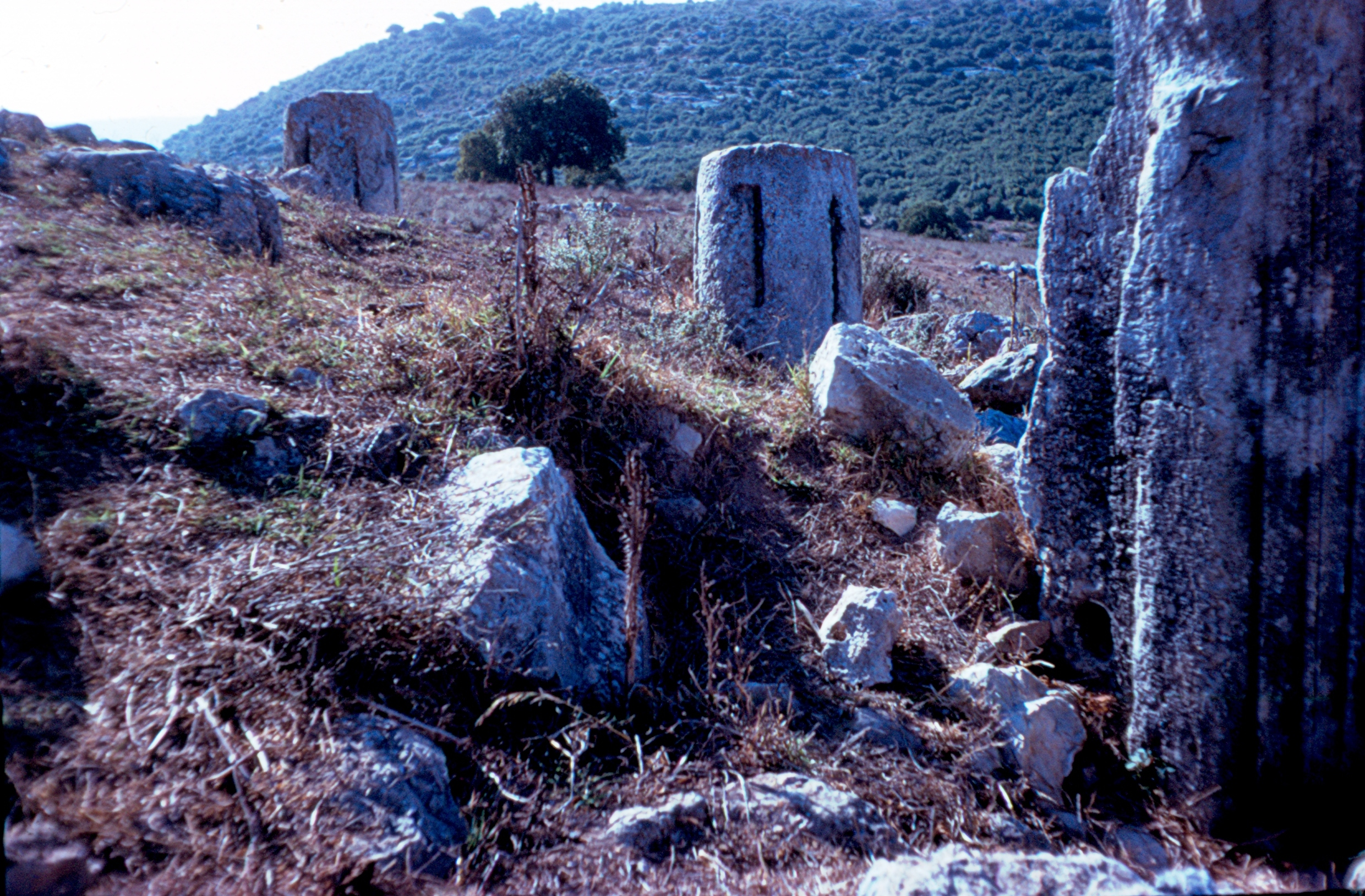 Hirbat_sumek_Synagoque